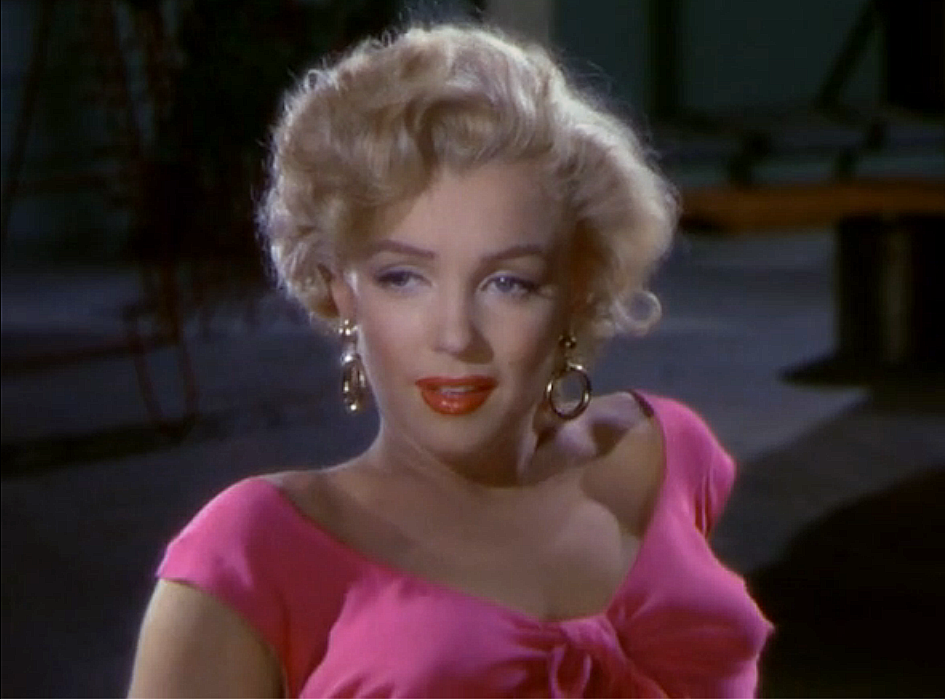 Marilyn Monroe in the 1953 film Niagara directed by Henry Hathaway.